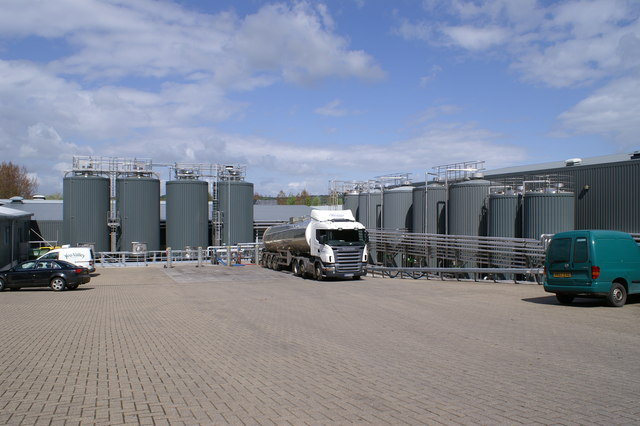 Yeo Valley Organic's Lag Farm production facility in Blagdon, North Somerset.